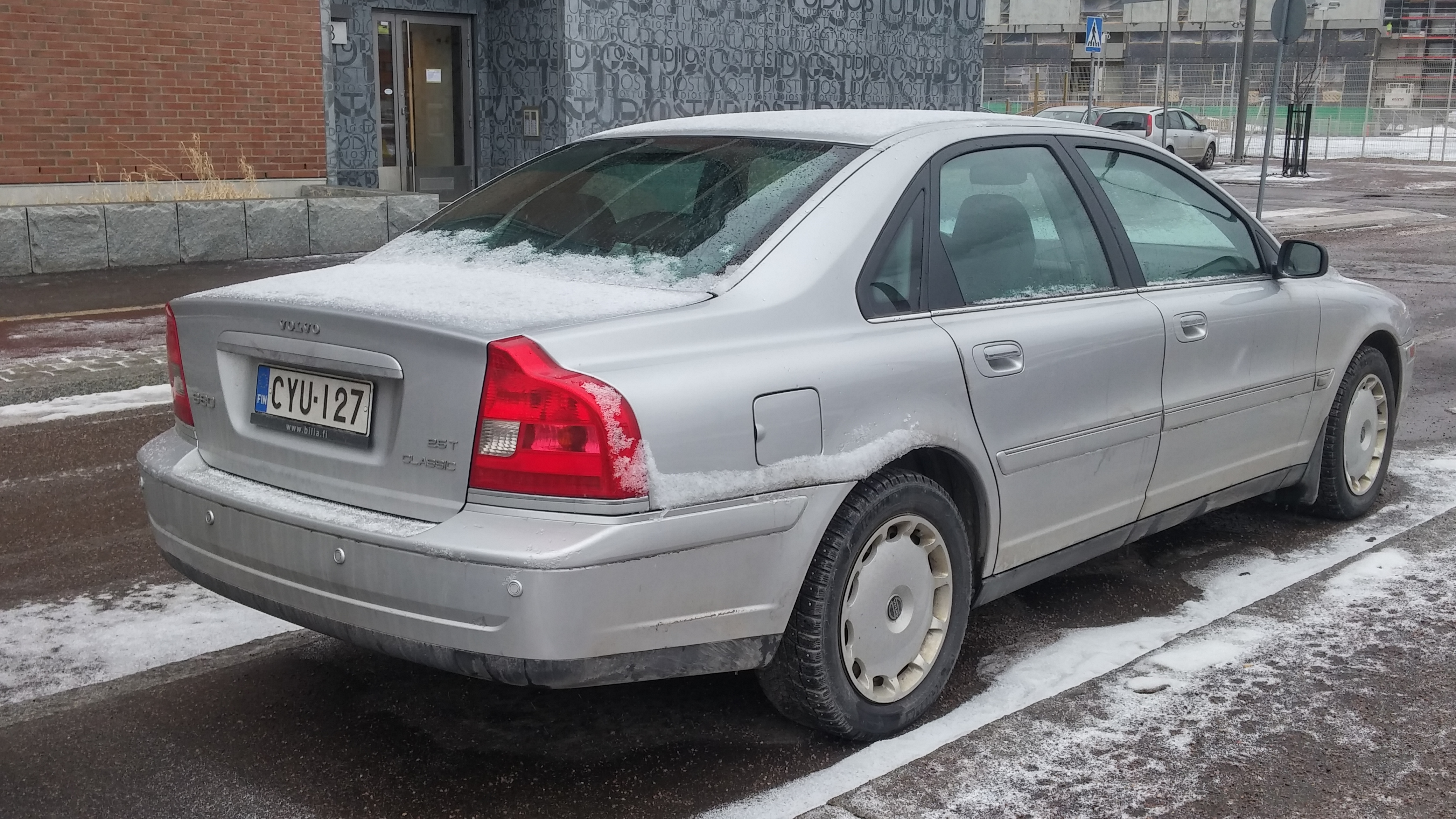 2005 Volvo S80